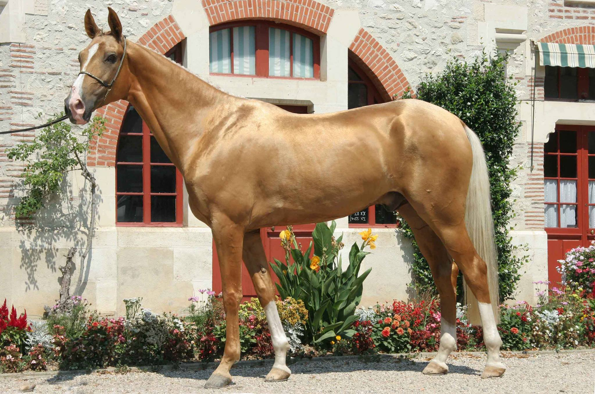 Golden Akhal-Teke stallion (Palomino)